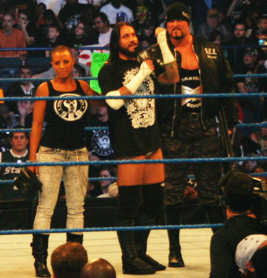 The Straight Edge Society pro wrestling stable.